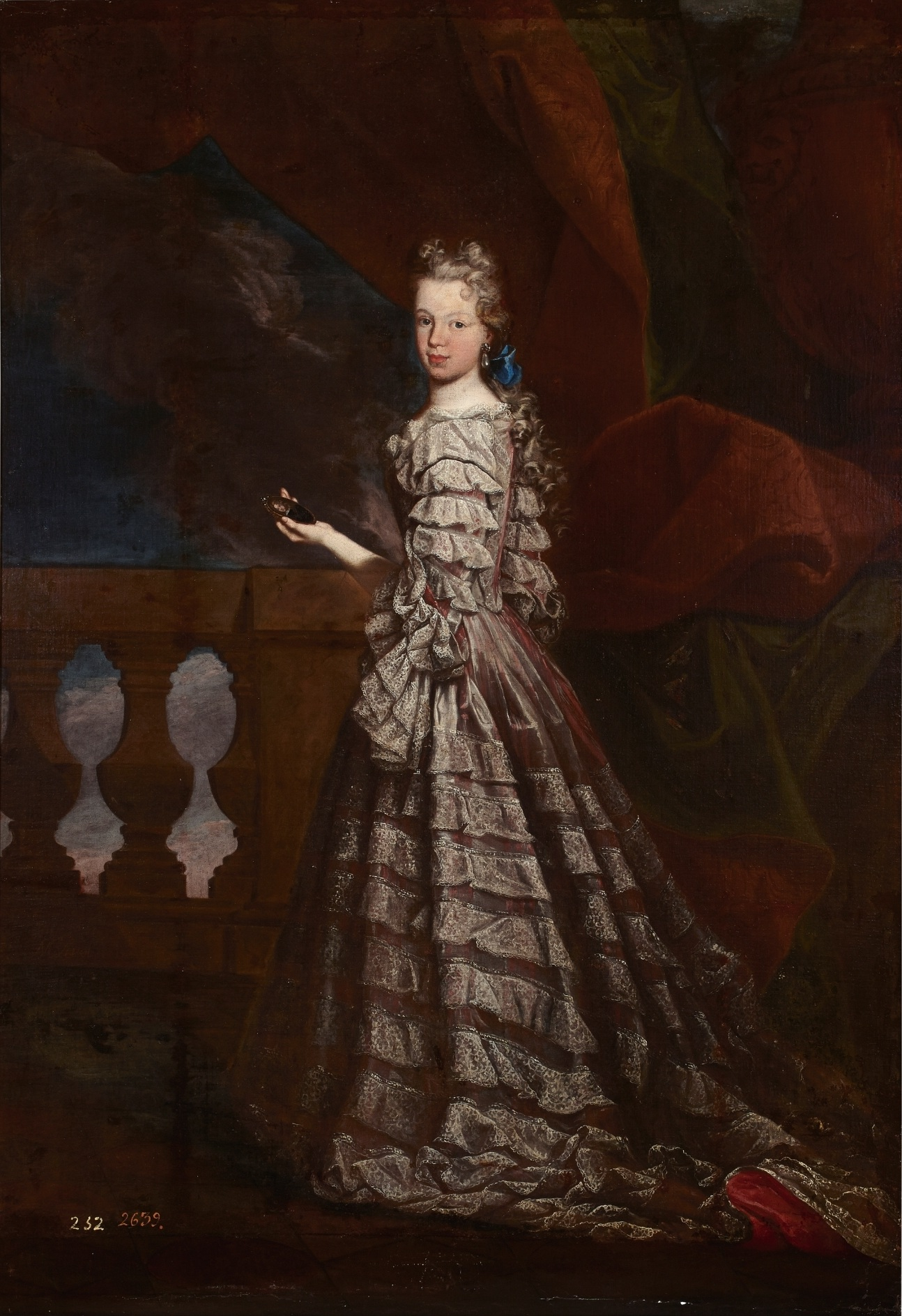 Queen and Regent of Spain, Maria Luisa of Savoy (1688-1714) A young Maria Luisa holding a miniature portrait of her husband Felipe V of Spain.